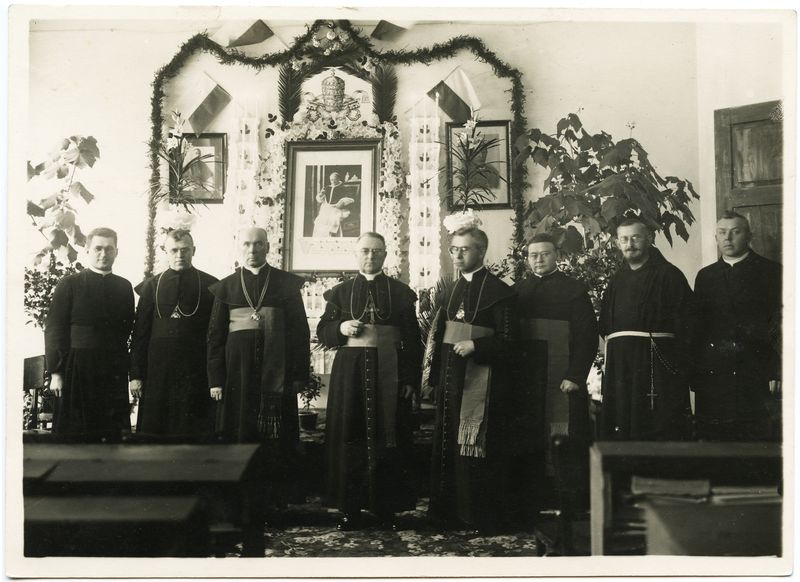 Commemoration of the coronation of Pope Pius XI at the Telšiai Priest Seminary. From the left: Justinas Juodaitis, J. Gasiūnas, Pranas Urbonavičius, bishop Justinas Staugaitis, Vincentas Borisevičius, A. Simaitis, unknown, J. Narijauskas.